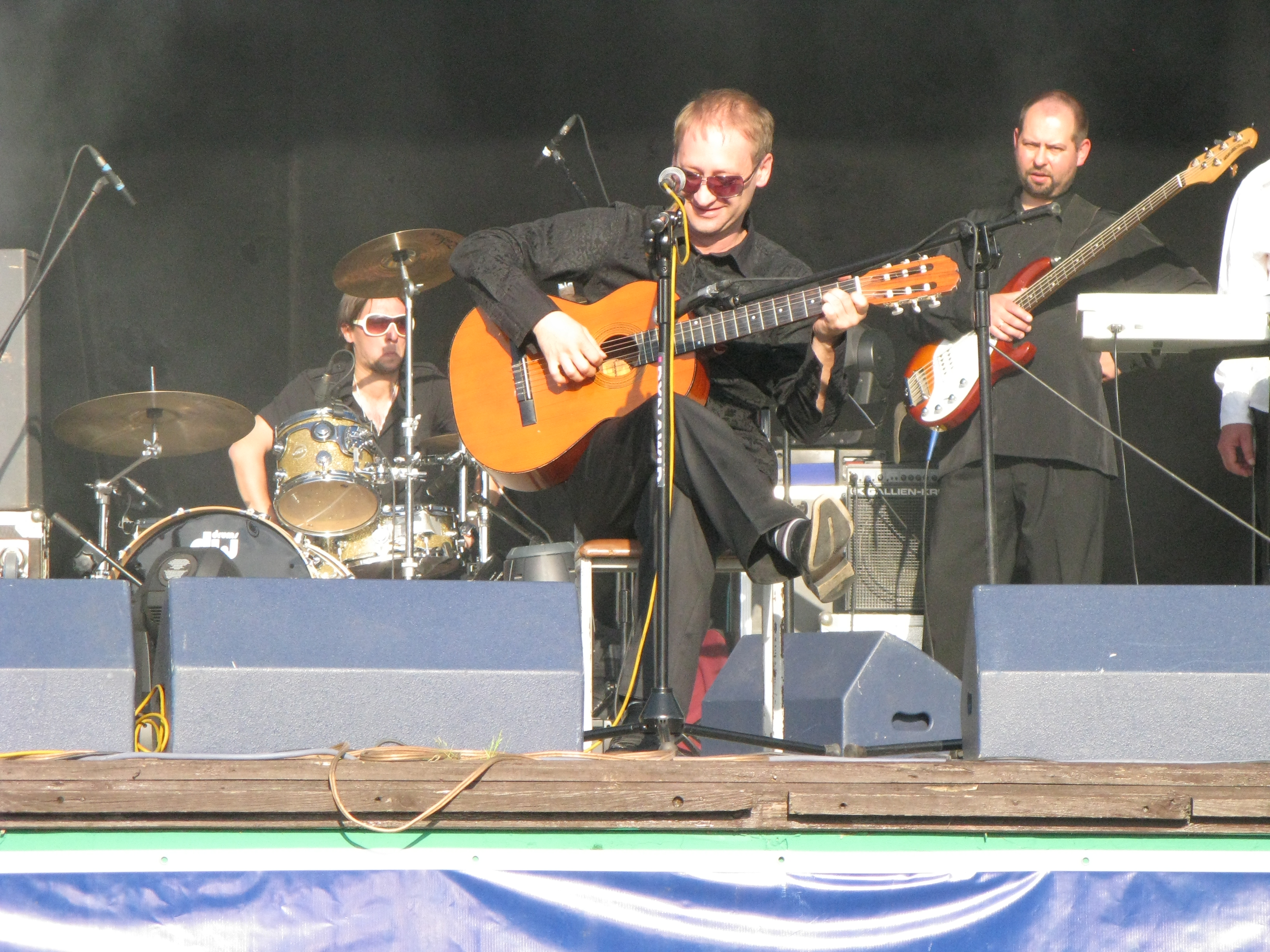 Polish actor and vocalist Mariusz Kiljan